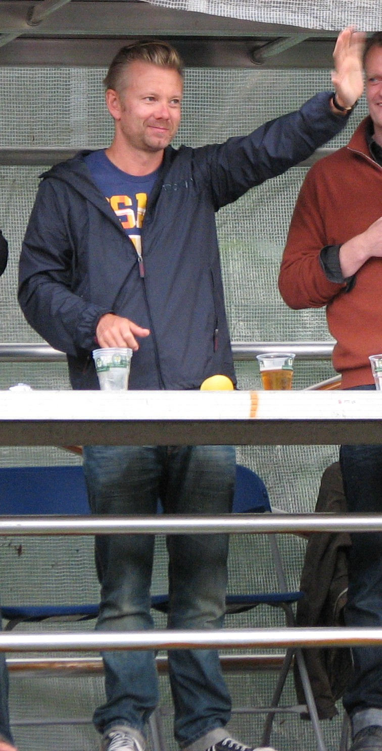 Casper Christensen commentating the Landligger soccer tournament in Rørvig.